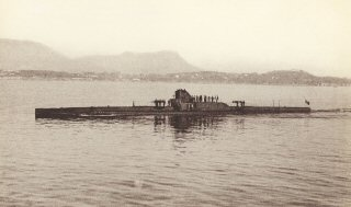 French sumbarine Joessel, of the Joessel class, after 1922-1923 refit.